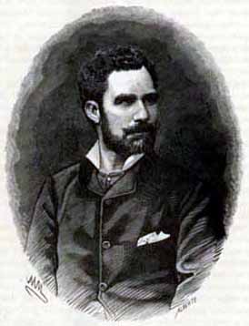 Description: Portrait of Spanish tenor, Julián Gayarre (born 1844; died 1890). It is an illustration from Benevides, Francisco da Fonseca, 1883, O Real Theatro de S. Carlos de Lisboa desde a sua fundação em 1793 até á actualidade, Lisbon: Castro Irmão, page 402. Source: Biblioteca Nacional de Portugal This image is used to illustrate the article on Julián Gayarre. This is a low resolution image.